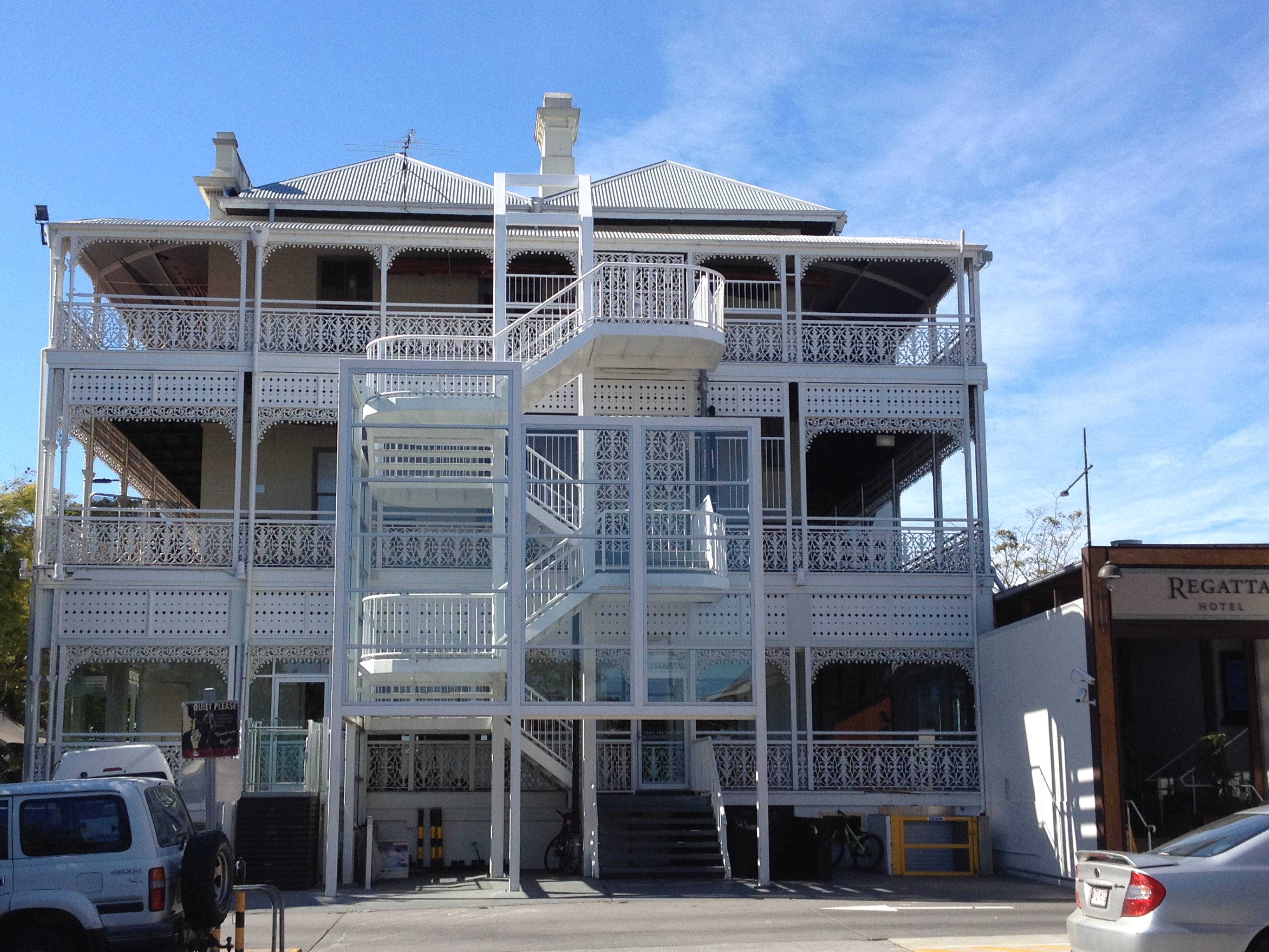 Back of Regatta Hotel, 543 Coronation Drive, Toowong, Queensland